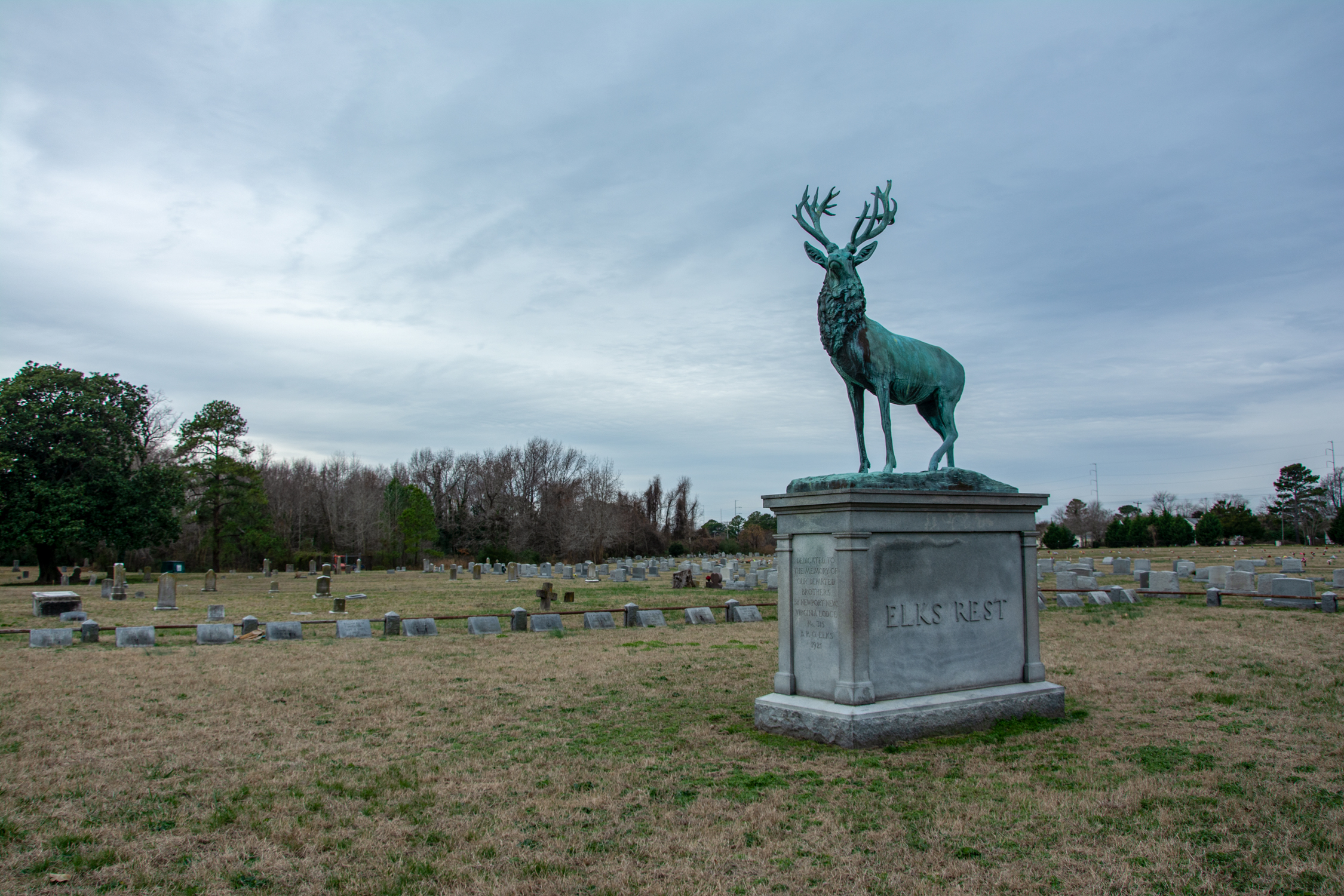 The communal burial ground and statue for Elks Lodge 315 at Greenlawn Memorial Park in Newport News, Virginia.